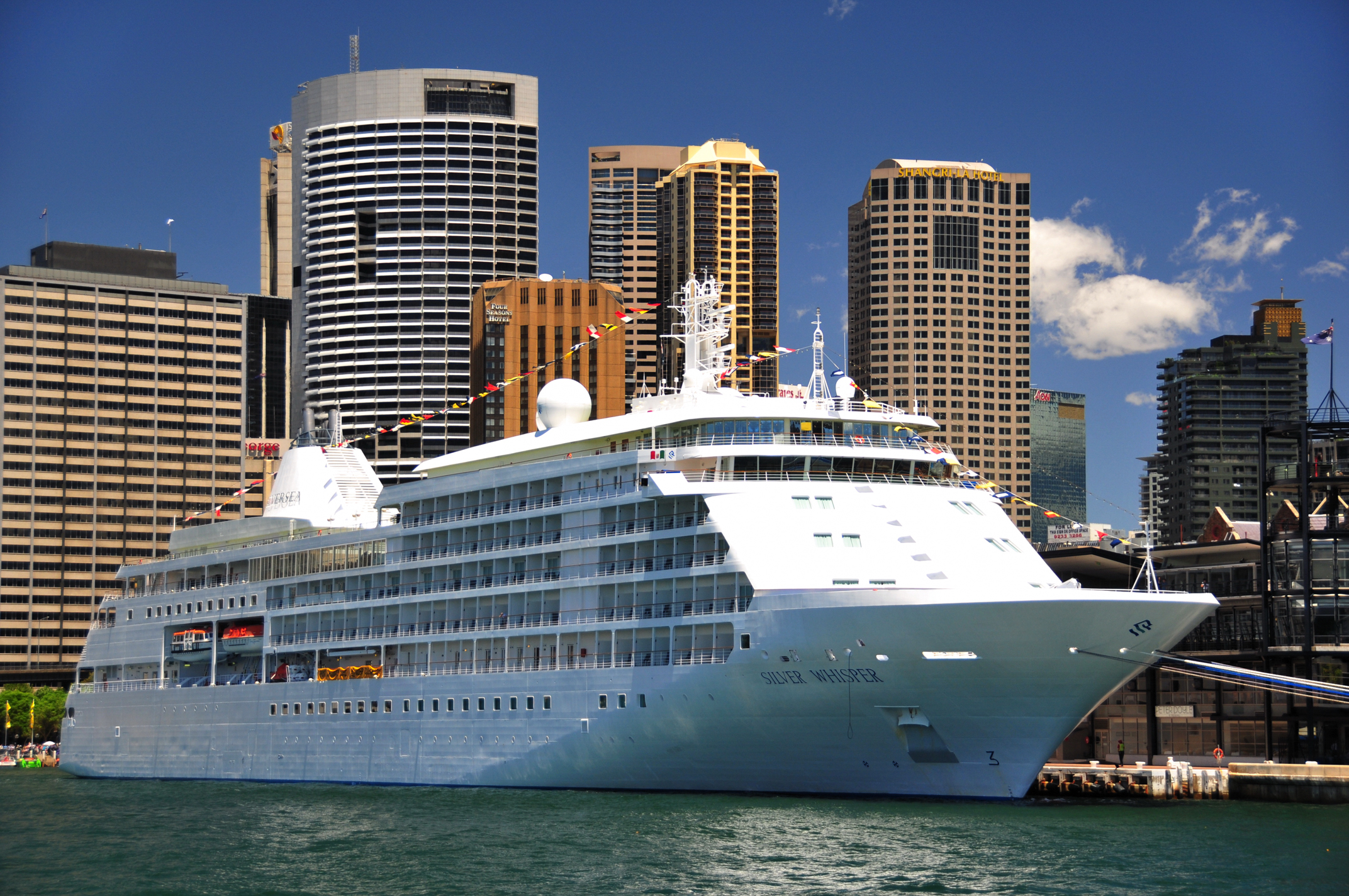 @ Overseas passenger terminal (just visible at the far right of the image), Sydney Cove, Sydney Harbour, Australia. View on Black